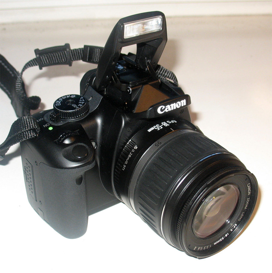 Canon EOS 400D front view with kit lens EF-S 18-55mm and neck strap